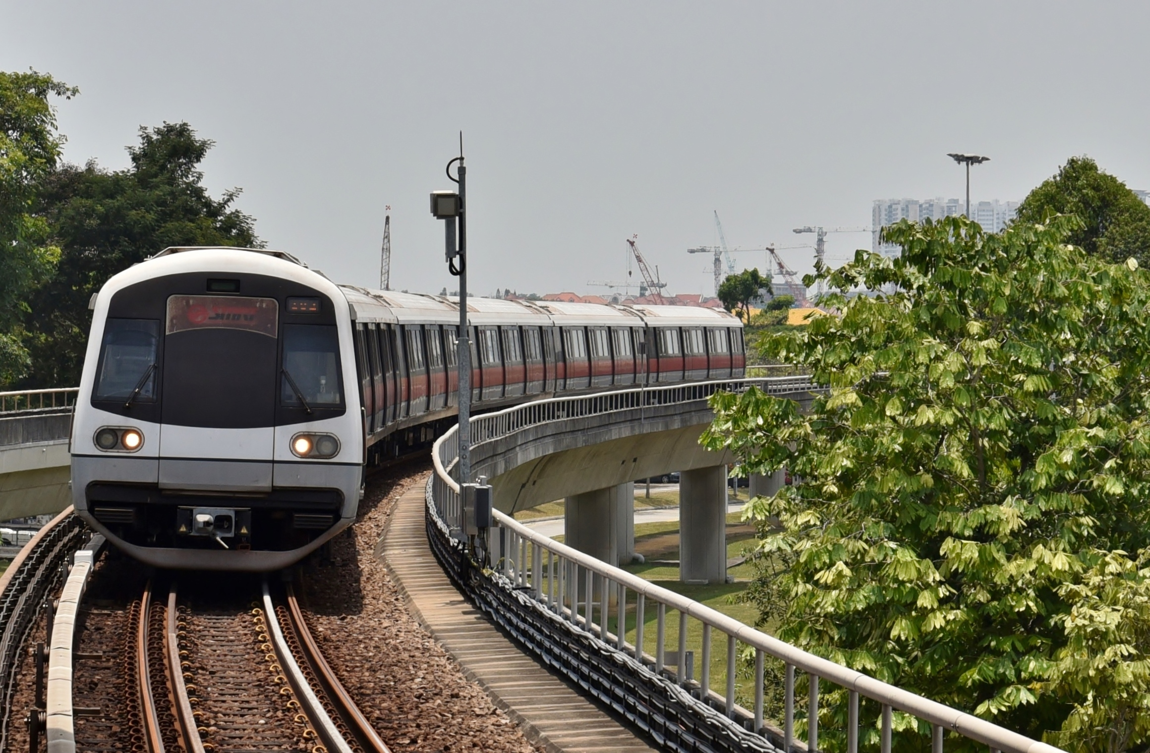 A Kawasaki Heavy Industries C151A train approaching Expo MRT Station, Singapore